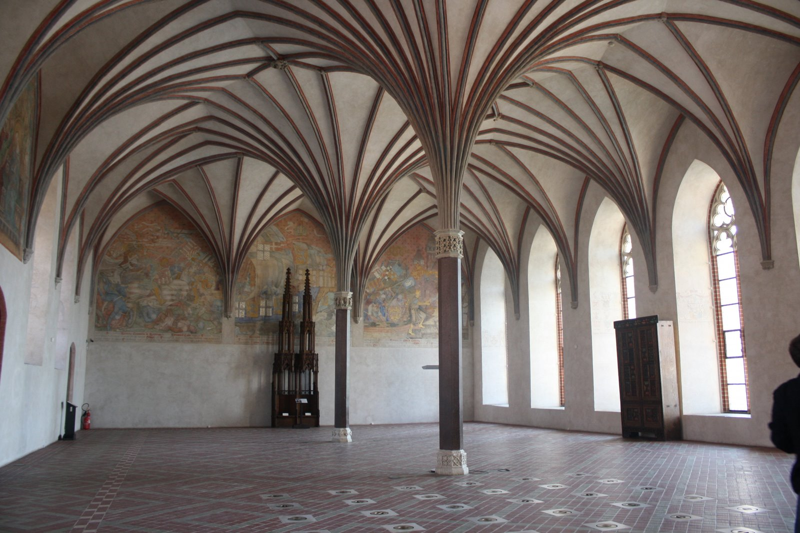 Malbork, Castle of Teutonic Order